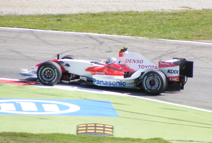 Jarno Trulli at the 2007 Italian GP